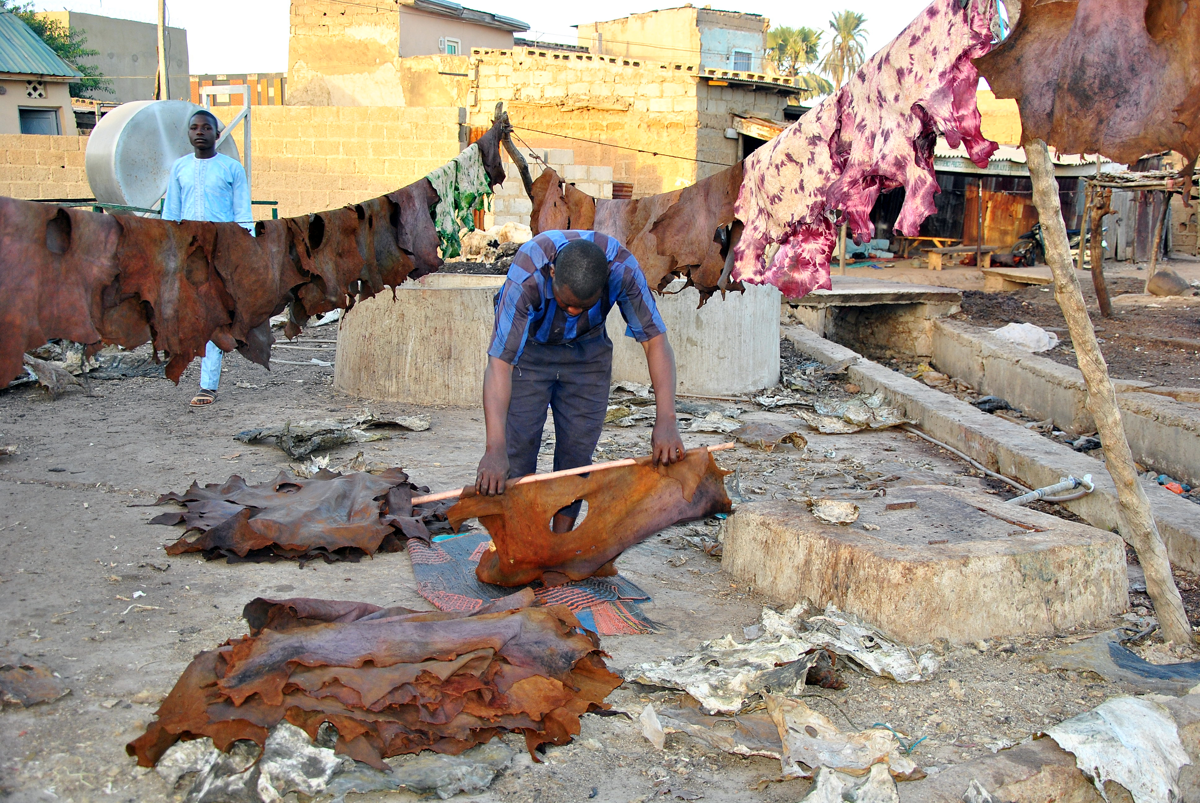 snapped at kofar wambai area of kano state, this man is at the final stage of processing of the hide, now when dry it is ready to be used for shoe making,bags,belt ,etc This is an image of "African people at work" from Nigeria